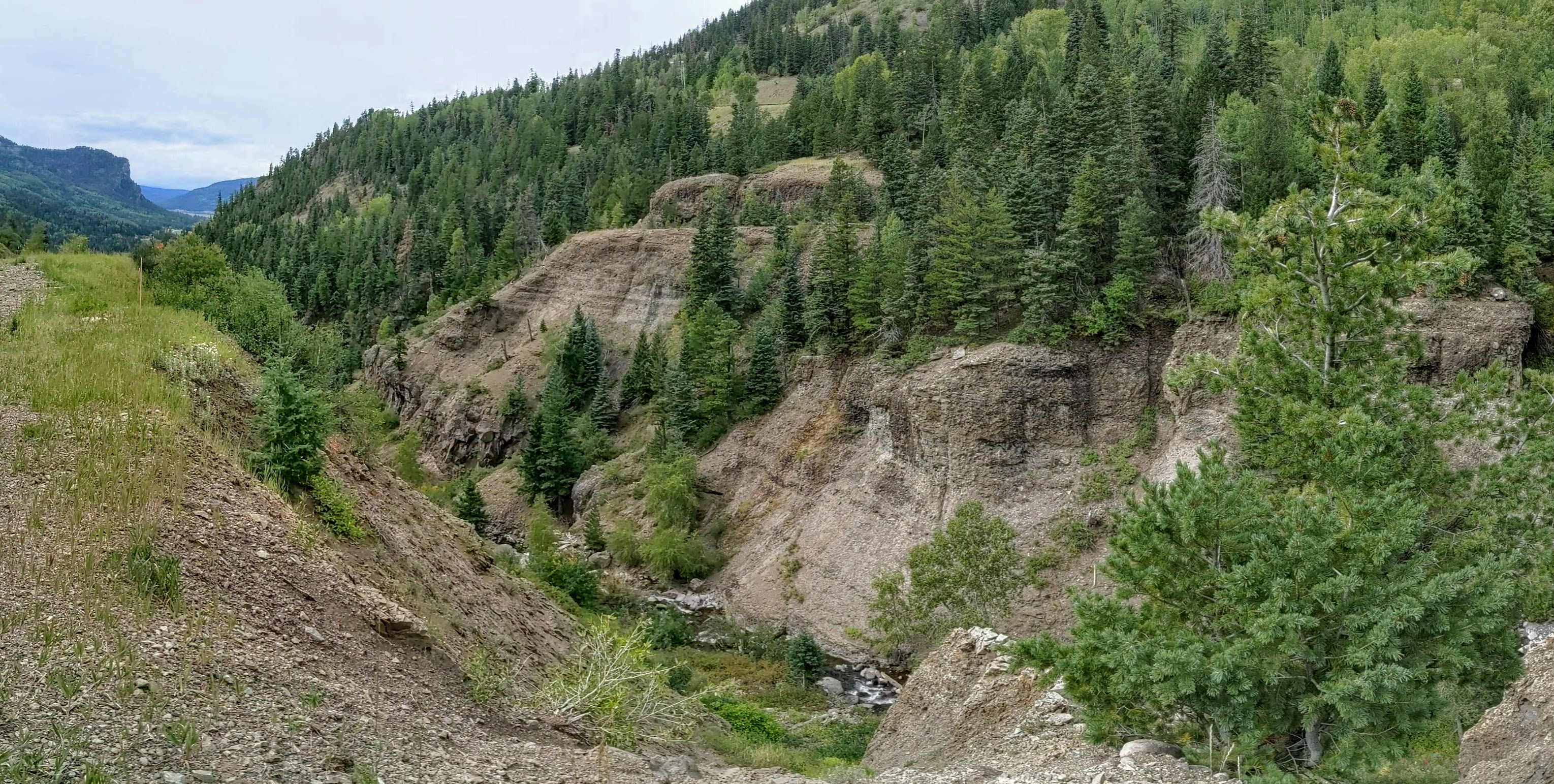 Wolf Creek, a tributary of the West Fork of the San Juan River, from a US 160 overlook part way up the west side of Wolf Creek Pass